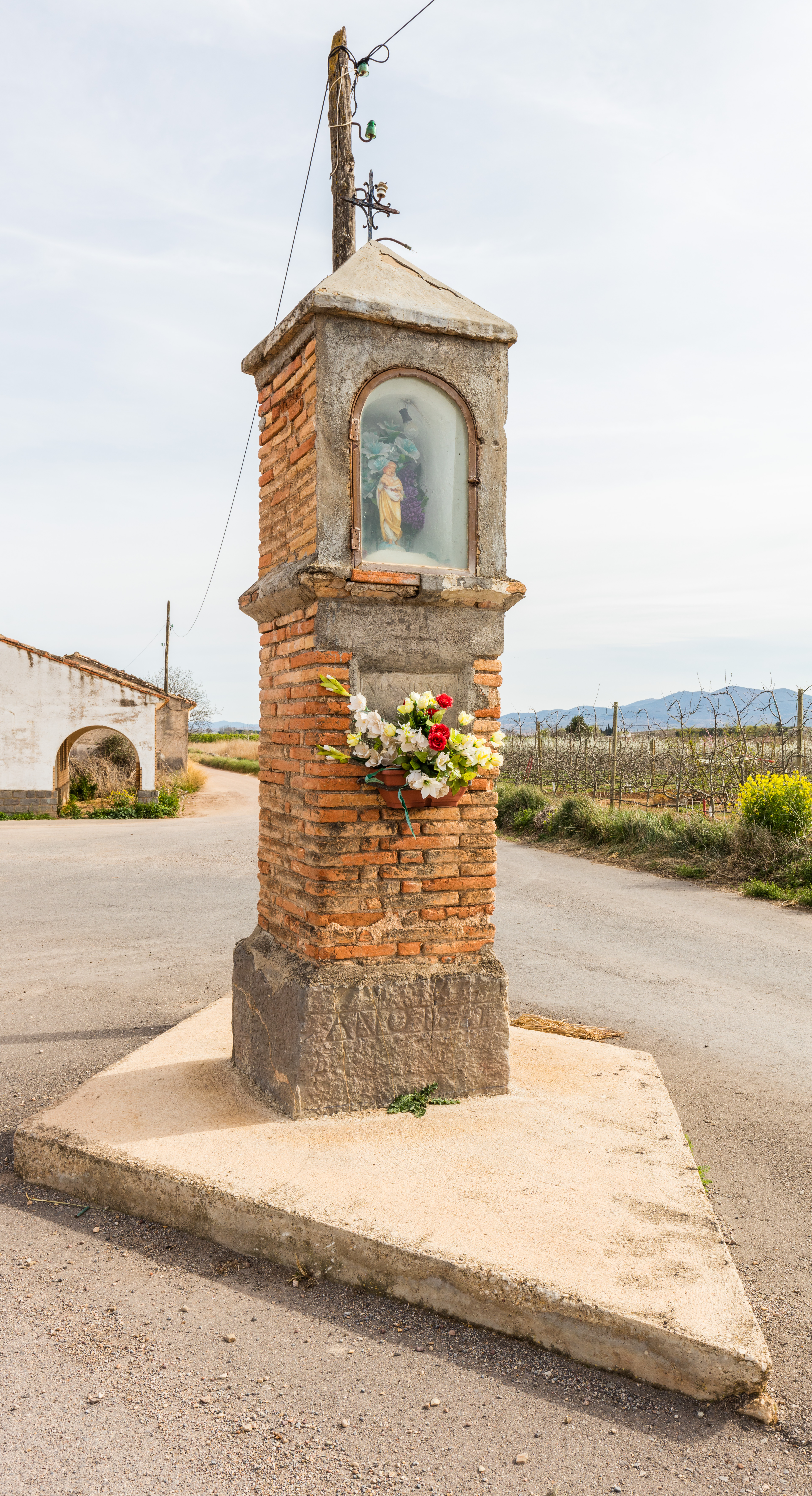 Wayside cross of the Virgin of Tremedal, Calatorao, Zaragoza, Spain